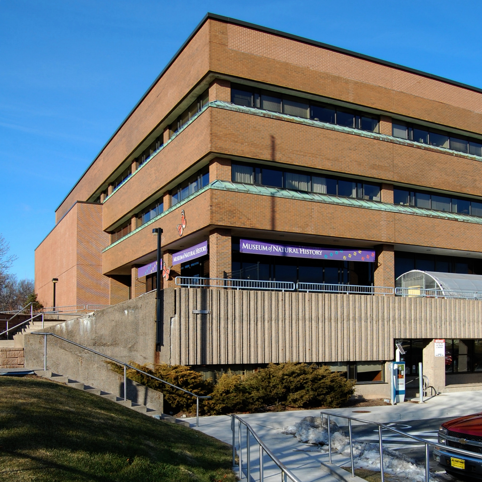 Nova Scotia Museum of Natural History Building, Summer Street, Halifax NS